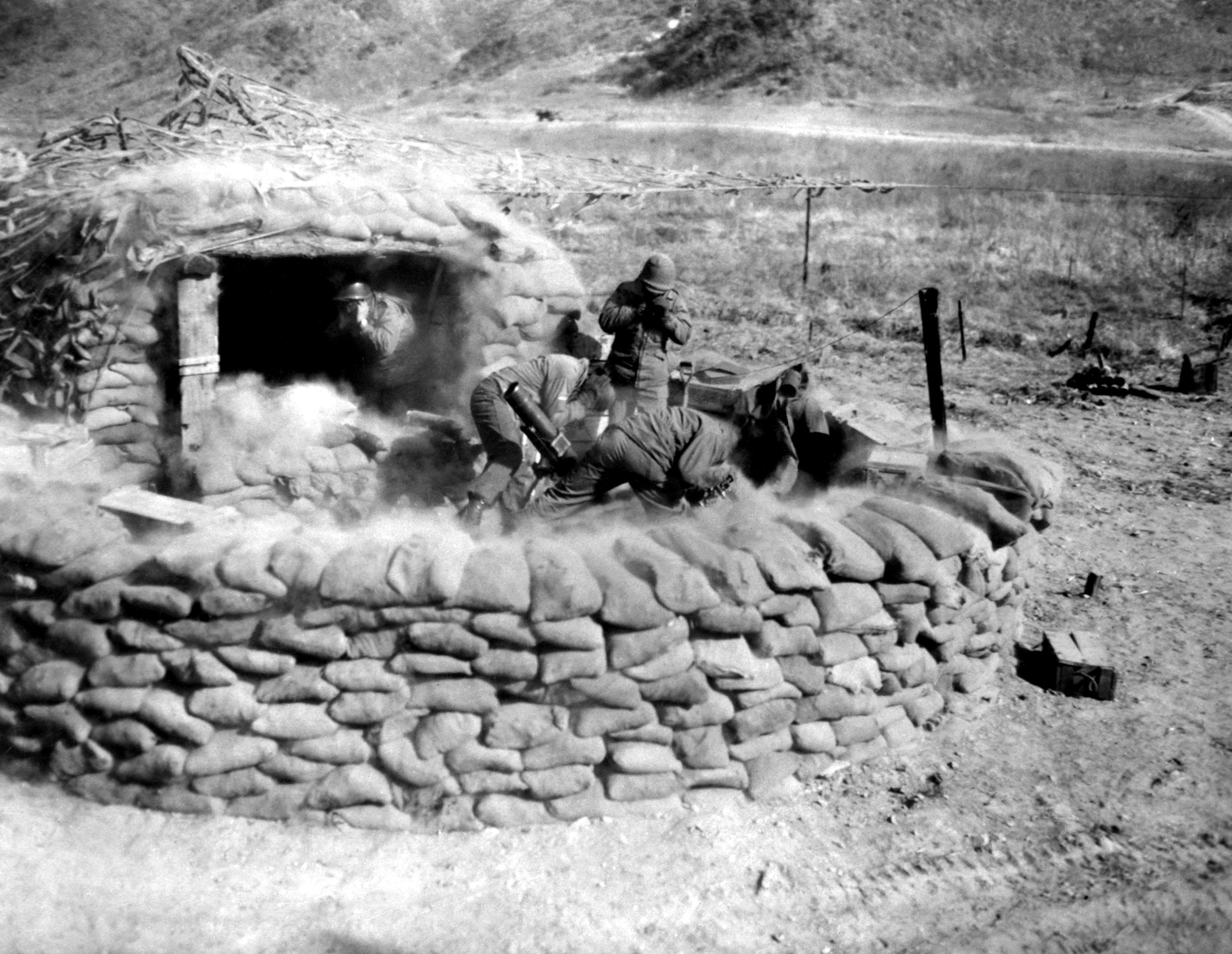 Men of the 4.2 mortar crew, 31st Heavy Mortar Co. fire at enemy position, west of Chorwon, Korea. February 7, 1953. Sgt. Guy A. Kassal. (Army) NARA FILE #: 111-SC-415620 WAR & CONFLICT BOOK #: 1436